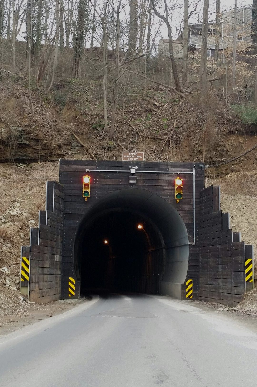 Armstrong Tunnel in St. Albans on Shadyside Road.